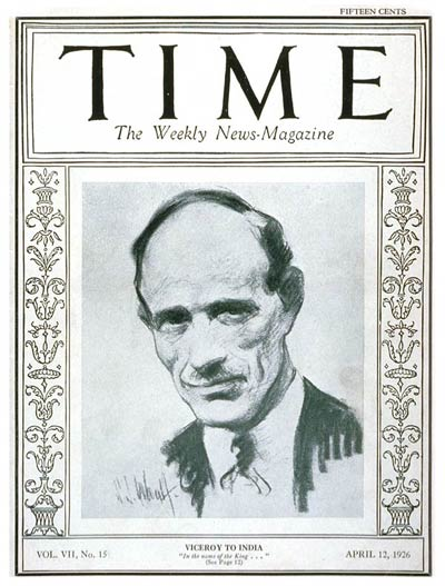 Cover of Time Magazine (April 12, 1926) w/ Lord Irwin, Viceroy and Governor General of India